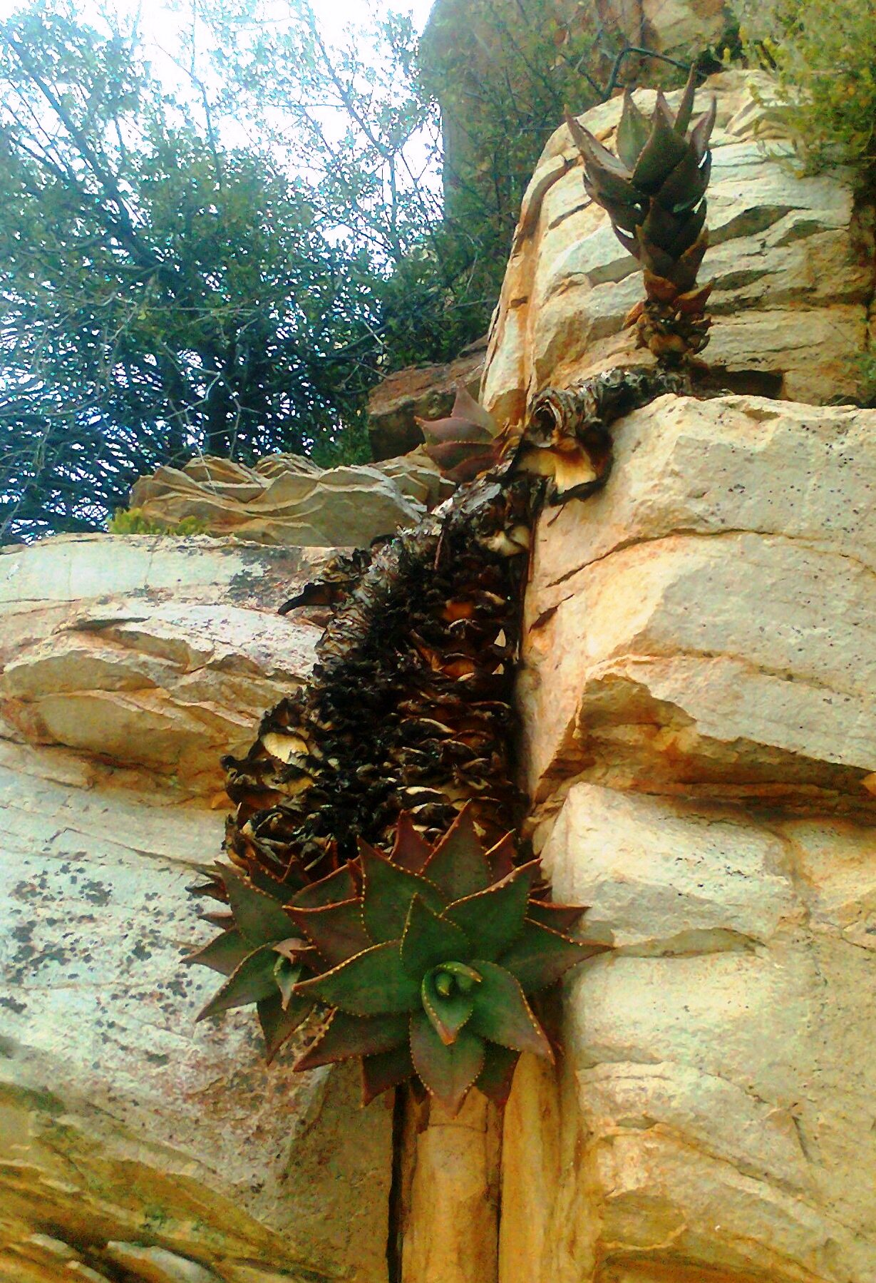 Aloe perfoliata. Karoo. South Africa.